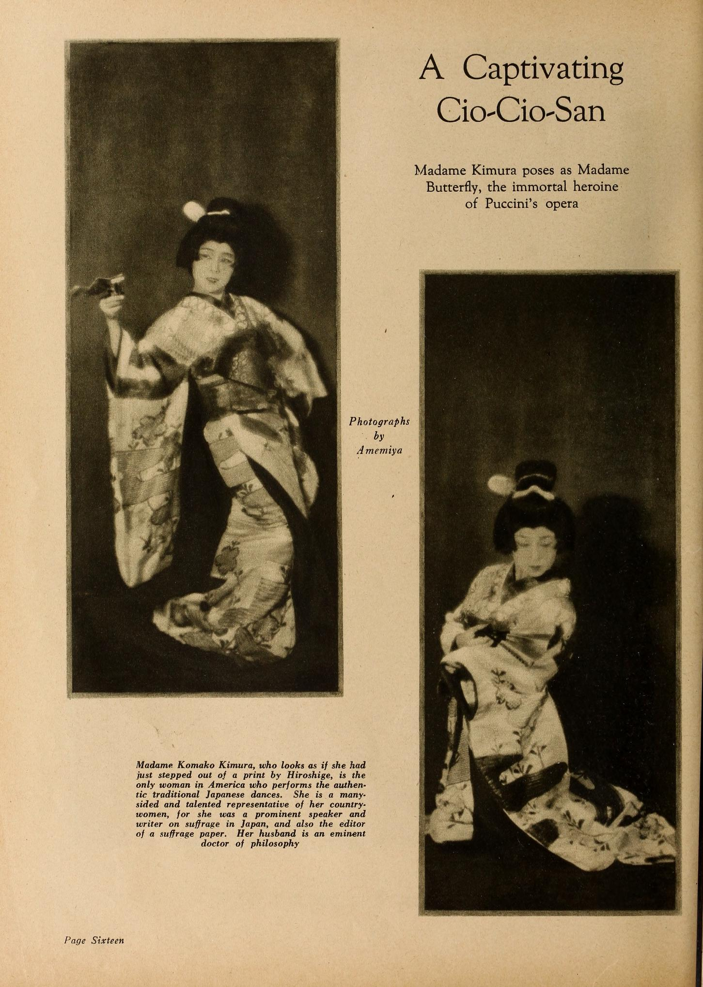 Photo spread of Japanese suffragist, actress, dancer, and magazine editor Komako Kimura, appearing in Shadowland magazine in 1923.